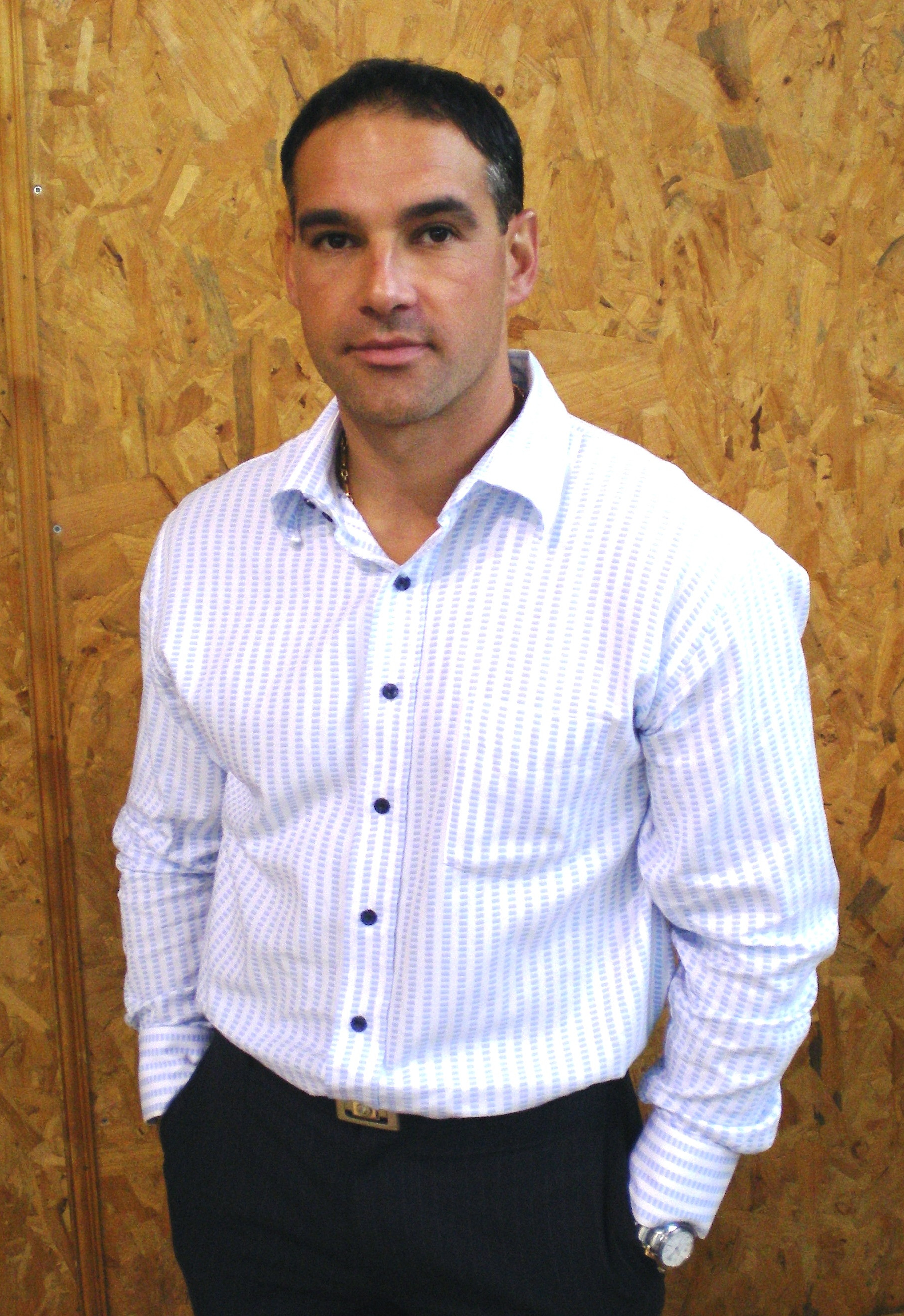 Bulgarian former gymnast Krasimir Dunev at the 2009 "Ruse Pearl" Festival of Gymnastics in Ruse, Bulgaria (as vice-president of the Bulgarian Gymnastics Federation)